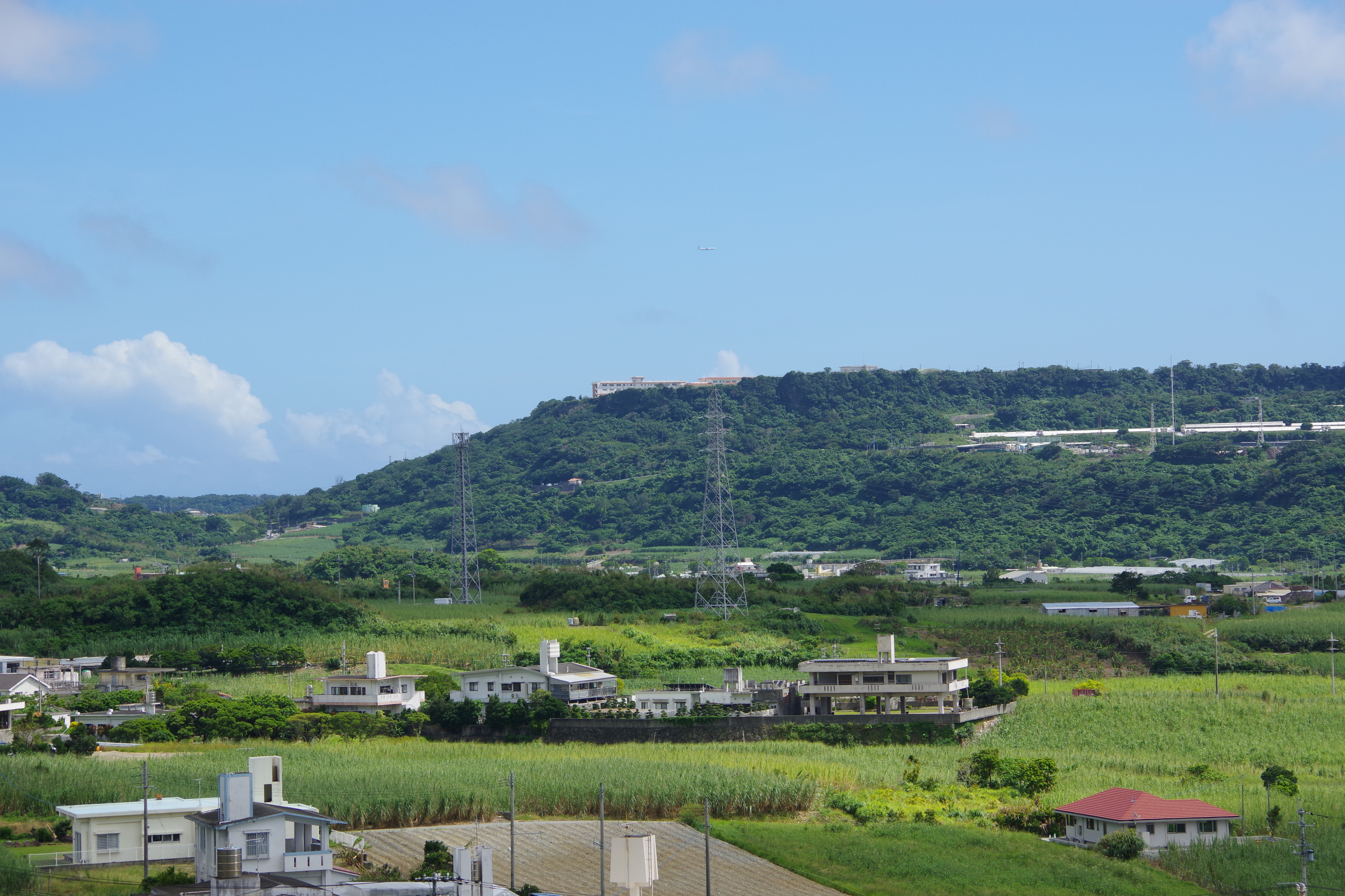 Mount Yaese, also known as "Big Apple", Okinawa Prefecture, Japan